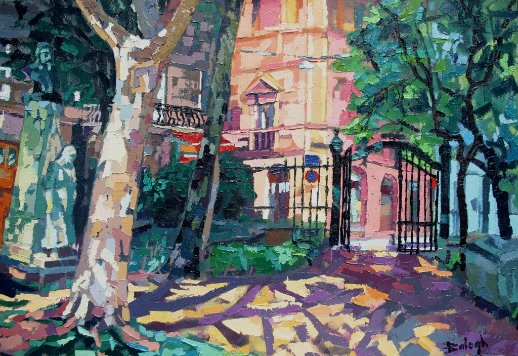 Károlyi Garden (oil on canvas, 70x50)